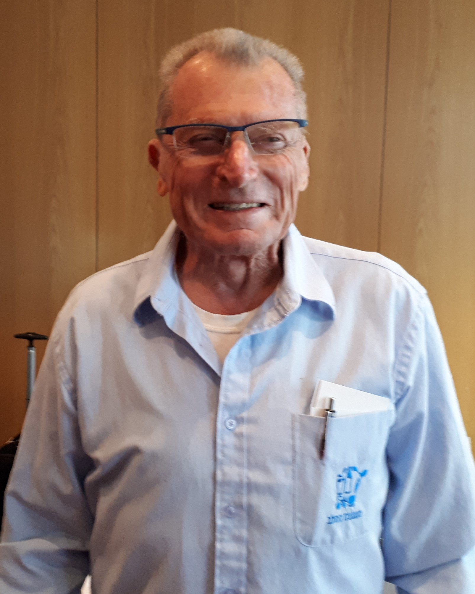 Prof. Zeev Trainin, veterinar and researcher, former Head of Kimron Veterinary Institute